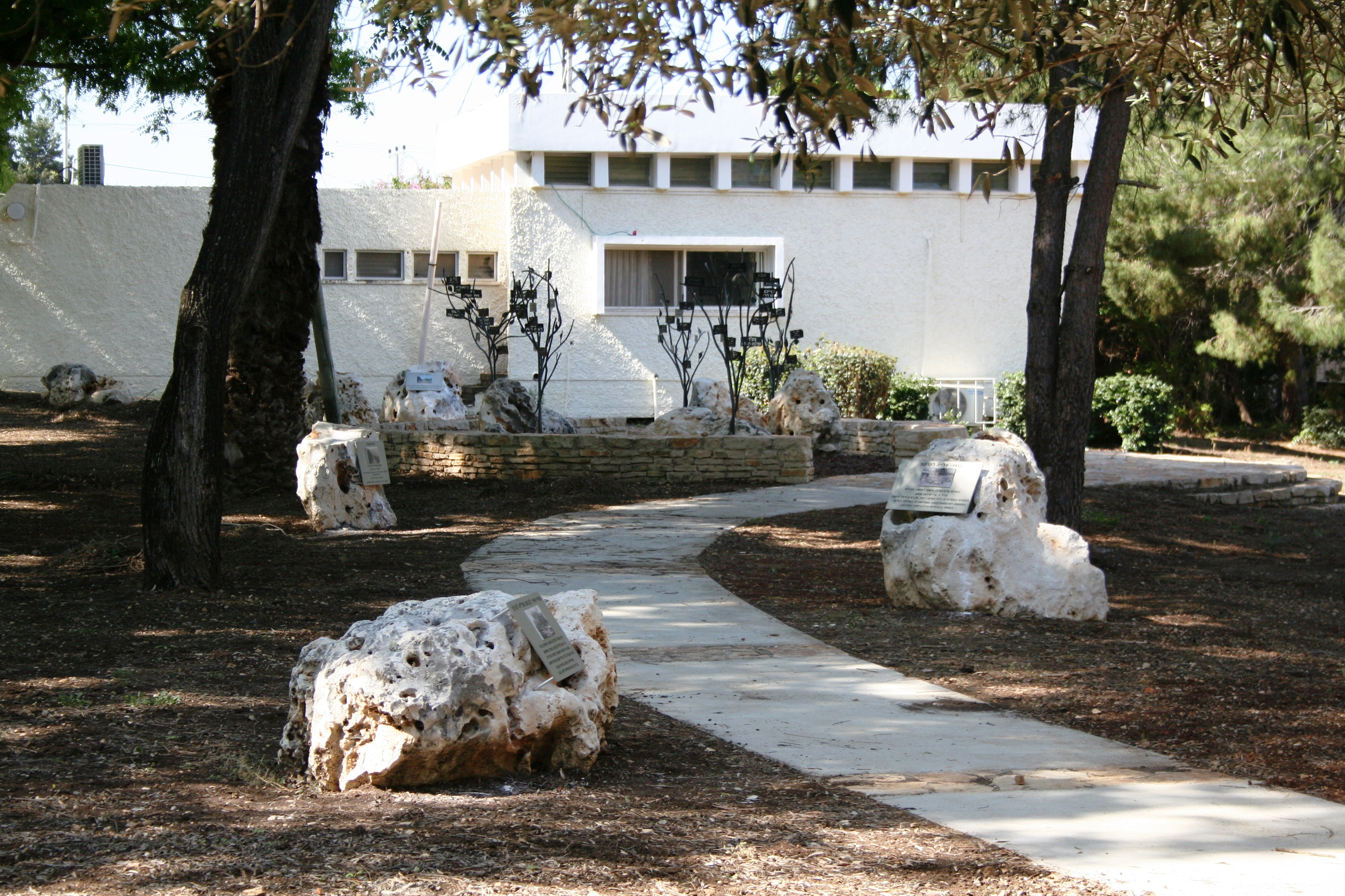 Moshav Betzet:founders' garden